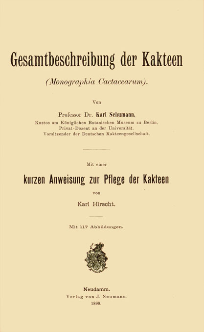 Titlepage of Schumanns Gesamtbeschreibung der Kakteen